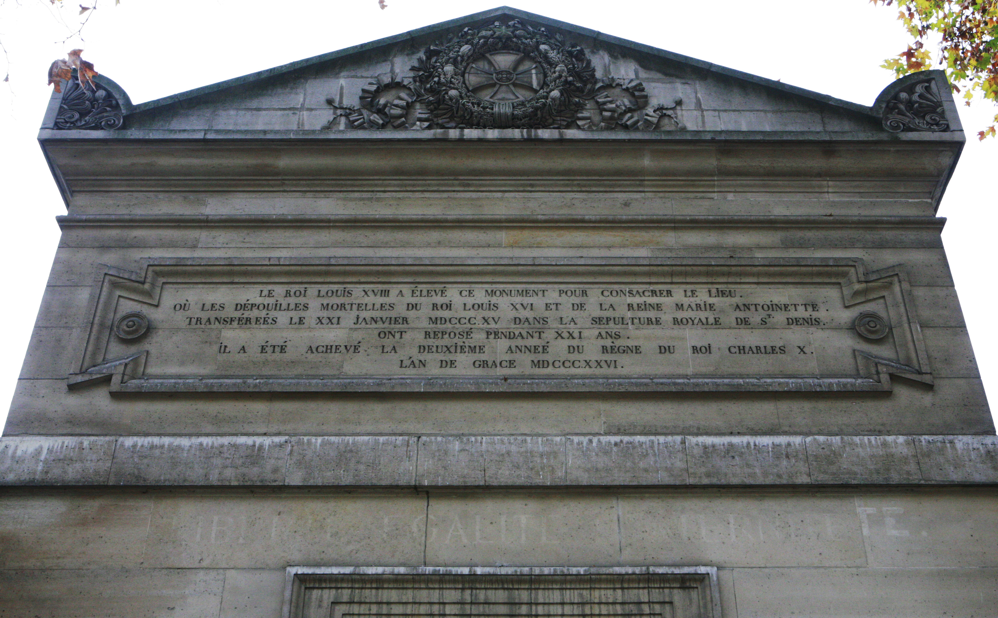 The Chapelle Expiatoire